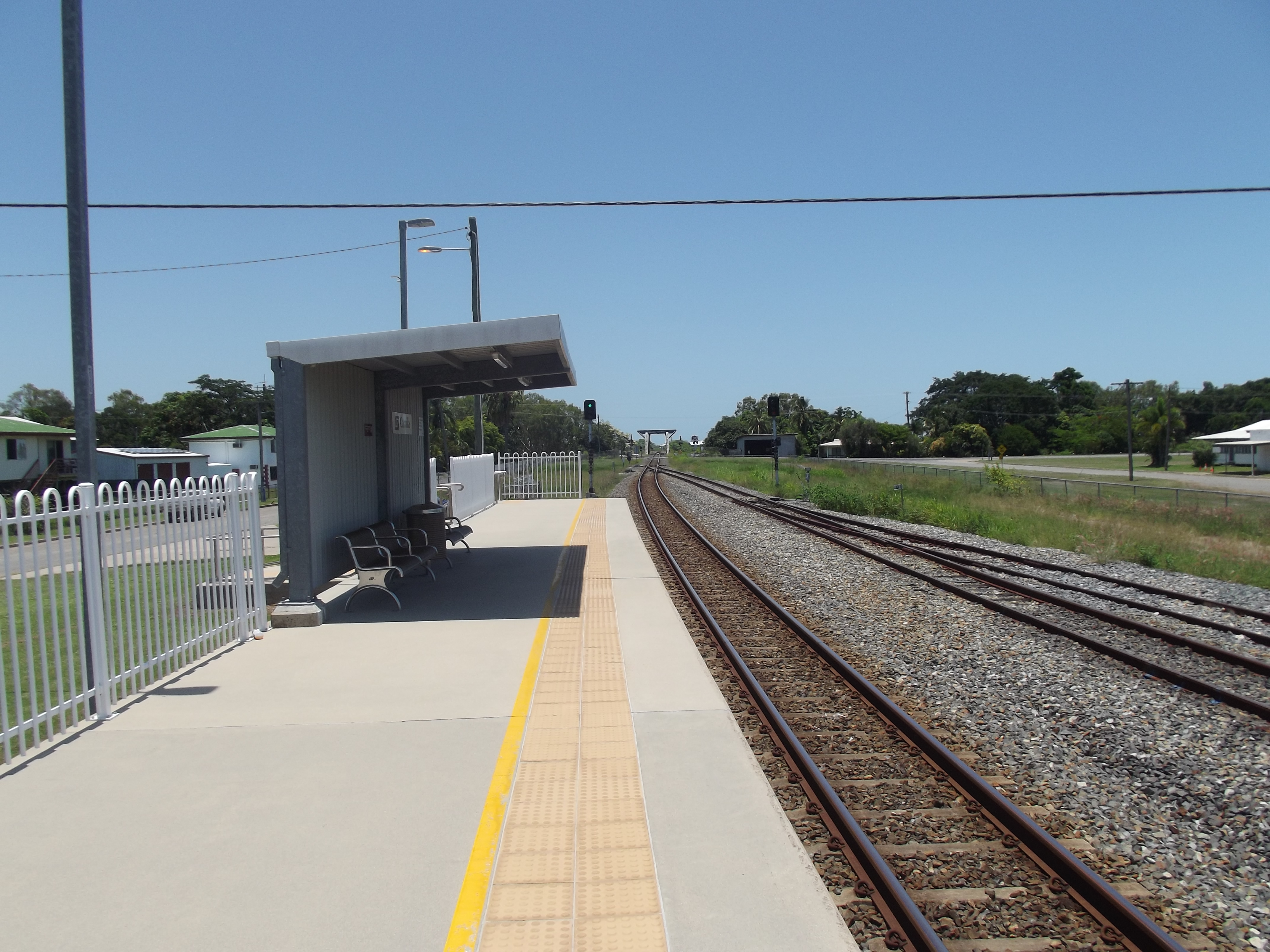 Carmila railway station, a stop on the North Coast line.